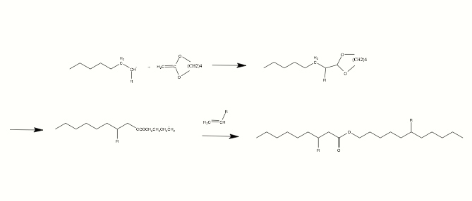 Insertion of an ester group into vinyl polymer.